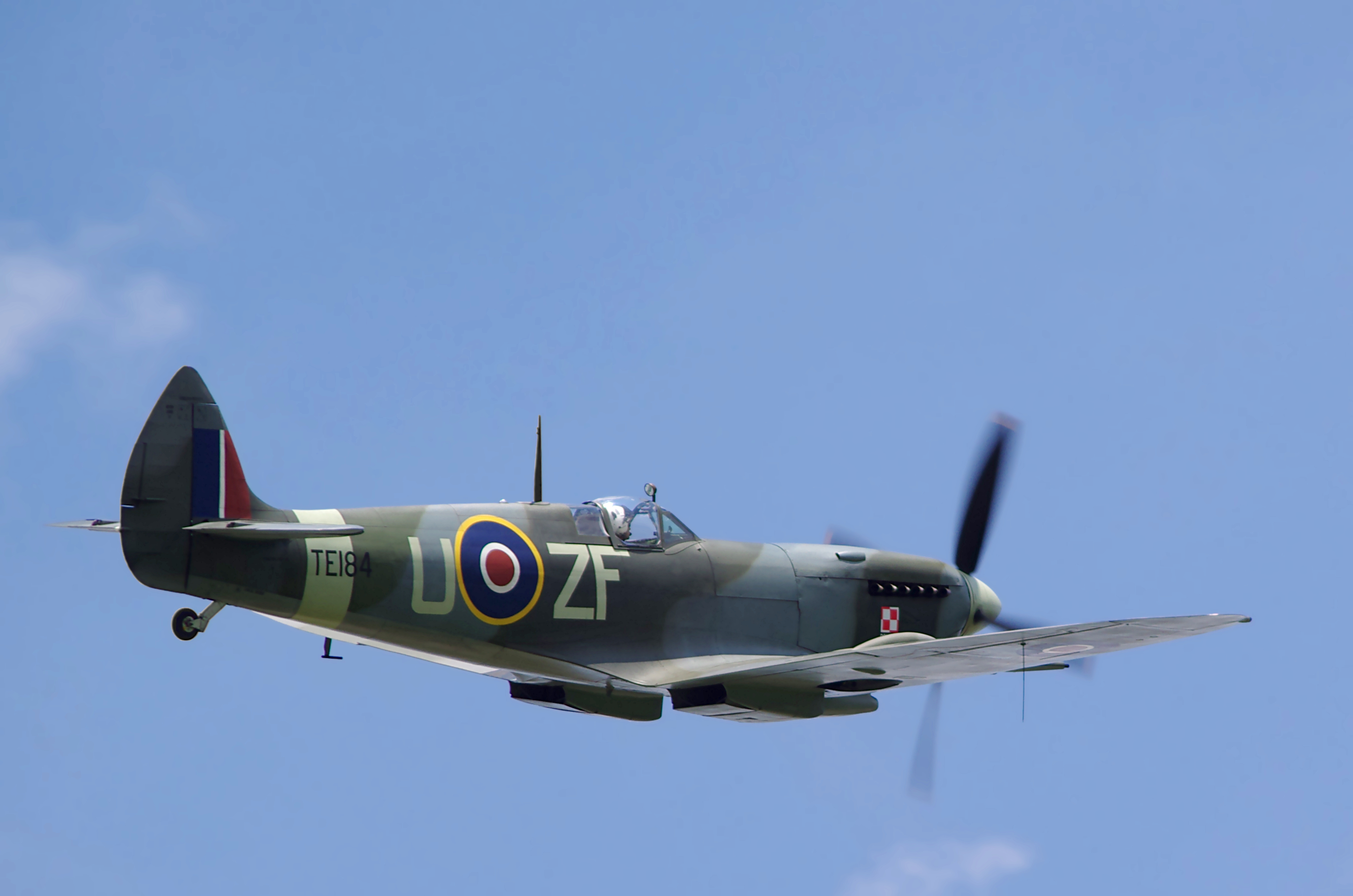 Supermarine Spitfire LF Mk.XVIE at the air show in Kraków